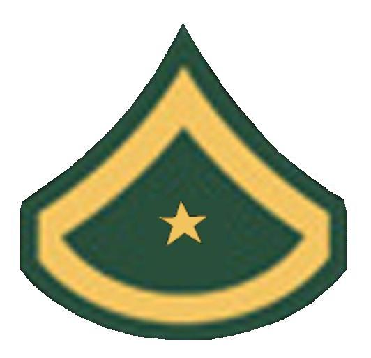 Maryland State Police Master Trooper Rank (15yrs of service)